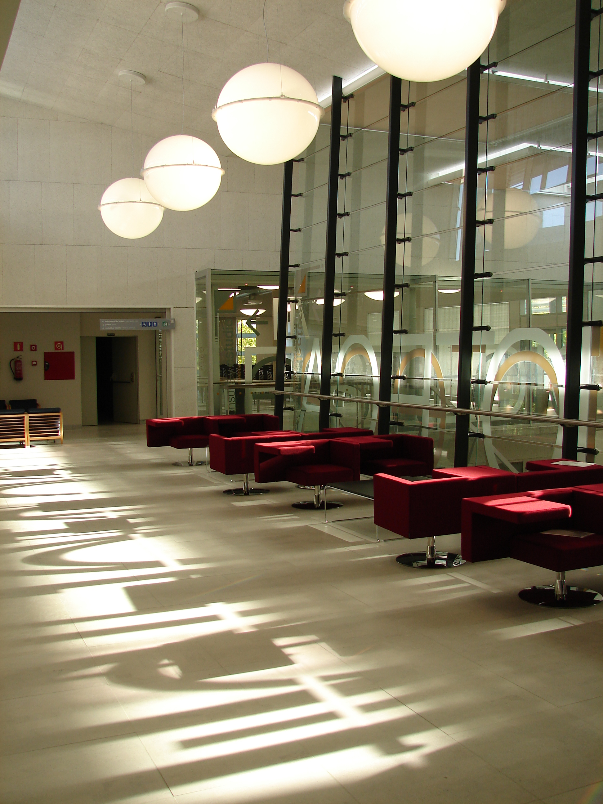 Biblioteca Municipal - Public Library - Lope de Vega (Tres Cantos) -Madrid